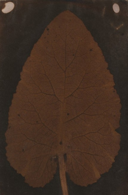 The so-called "Quillan Leaf", a photogram produced by Sarah Anne Bright in 1839.